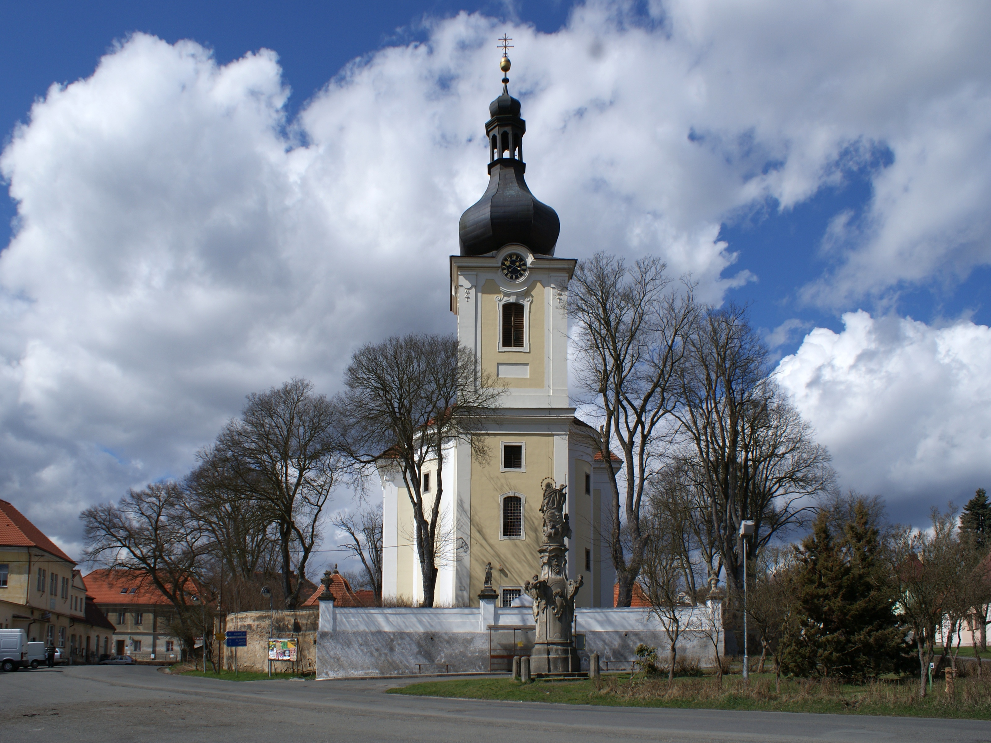 Žinkovy a small town in Plzeň jih district, Czech Republic. Church on the town square seen from the square.